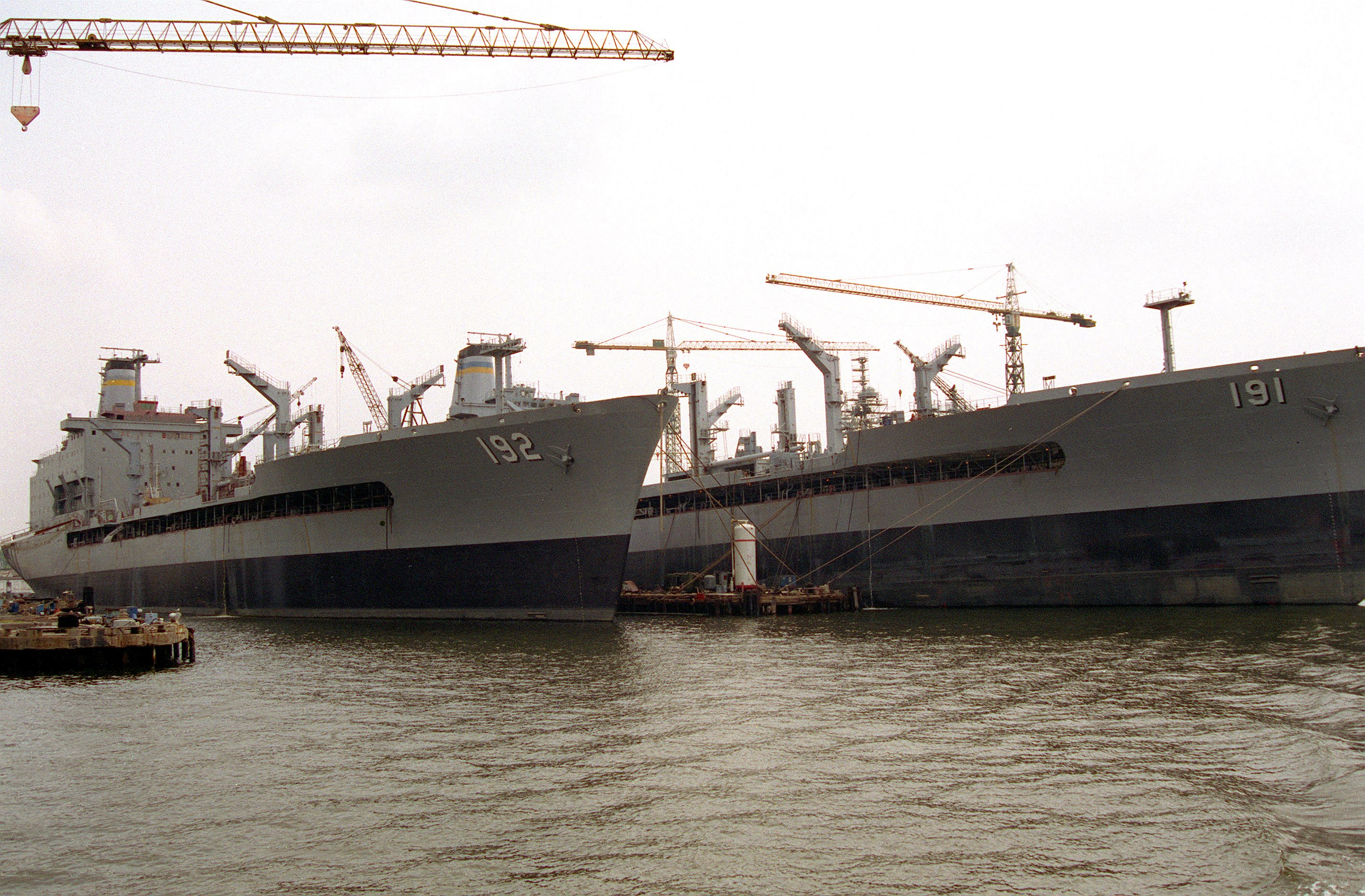 A starboard bow view of the Military Sealift Command oilers USNS Henry Eckford (T-AO-192) and USNS Benjamin Isherwood (T-A0-191) tied up at the Norfolk Ship Building and Dry Dock Corporation near Norfolk. The two ships, under construction since 1986, and partially completed first by Penn Shipbuilding and then by Tampa Shipbuilding, are being prepared by NORSHIPCO for long term storage as the feasability of converting them to ammunition ships proved cost prohibitive. Location: Elizabeth River, Norfolk, Virginia, United States of America